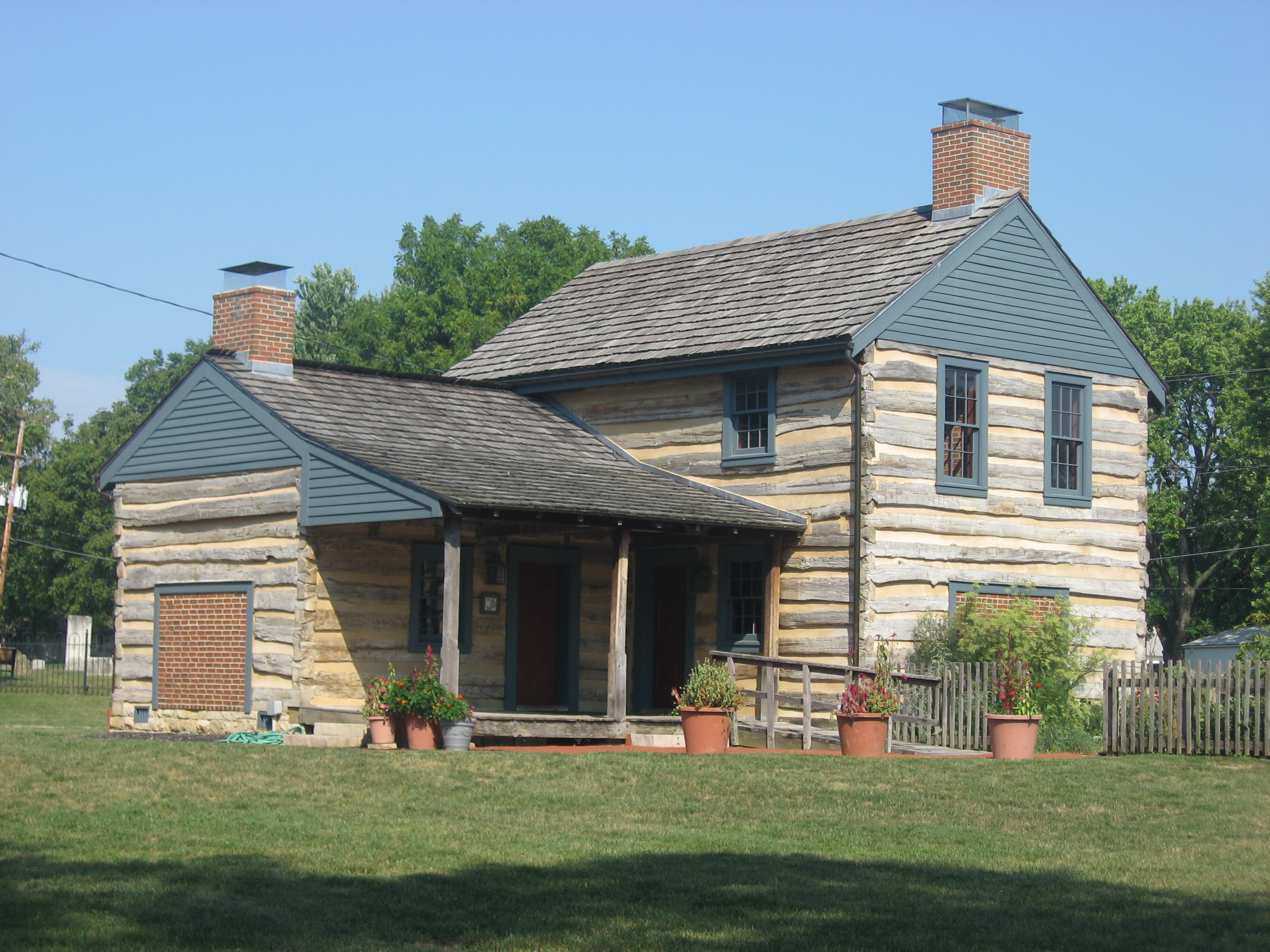 One of the Groveport Log Houses, located in a community park on the southern side of Wirt Road in Groveport, Ohio, United States. Built in 1815, this house and one other are listed together on the National Register of Historic Places.